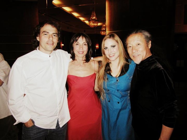 Maika Ceres with Kitaro, Suzanne Ciani and Emil Montgomery @ Teatro Solís.